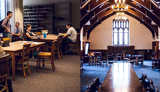 Two shots of the Divinity School Library at Duke University-- the main floor and the York room.